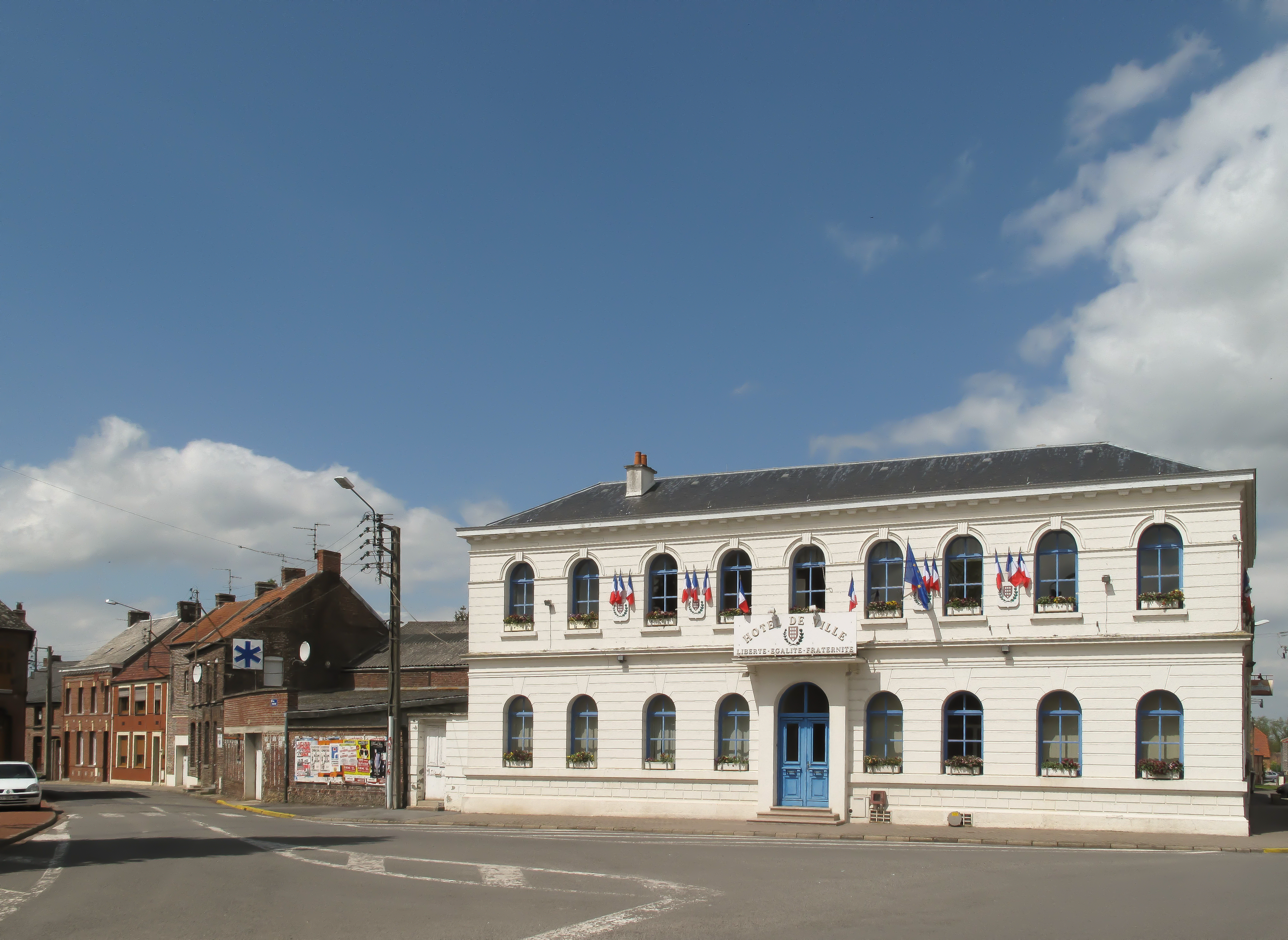 Hergnies, townhall